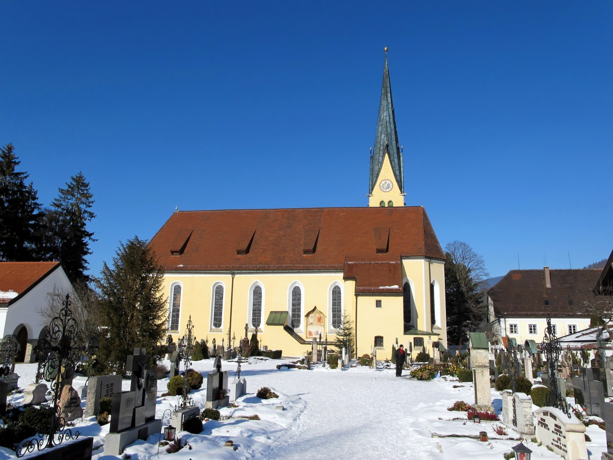 kath. church St. Laurentius, churchyard with with artists graves